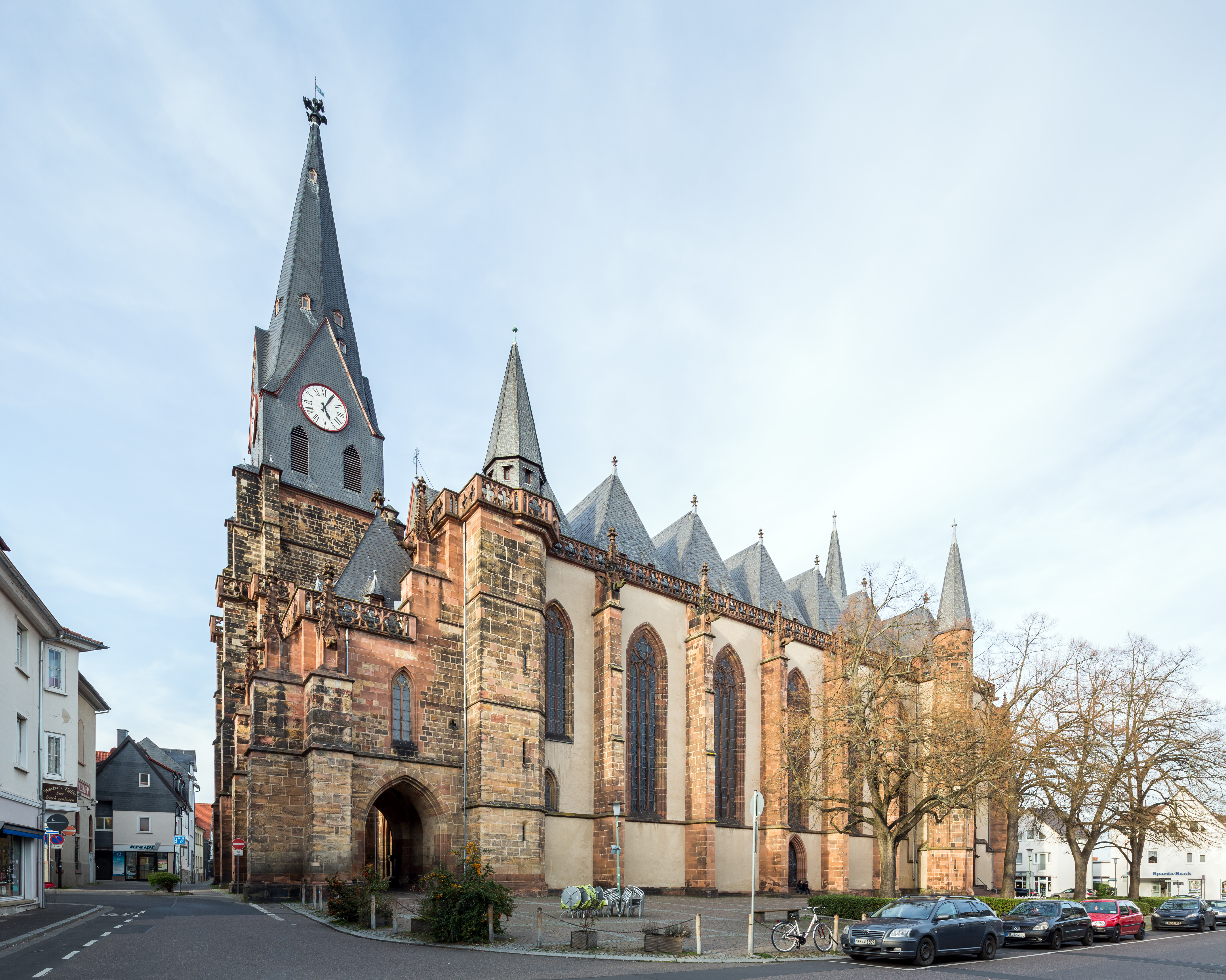 Friedberg (Hesse): Stadtpfarrkirche Unserer Lieben Frau (Our Lady's Parish Church) as seen from the southwest